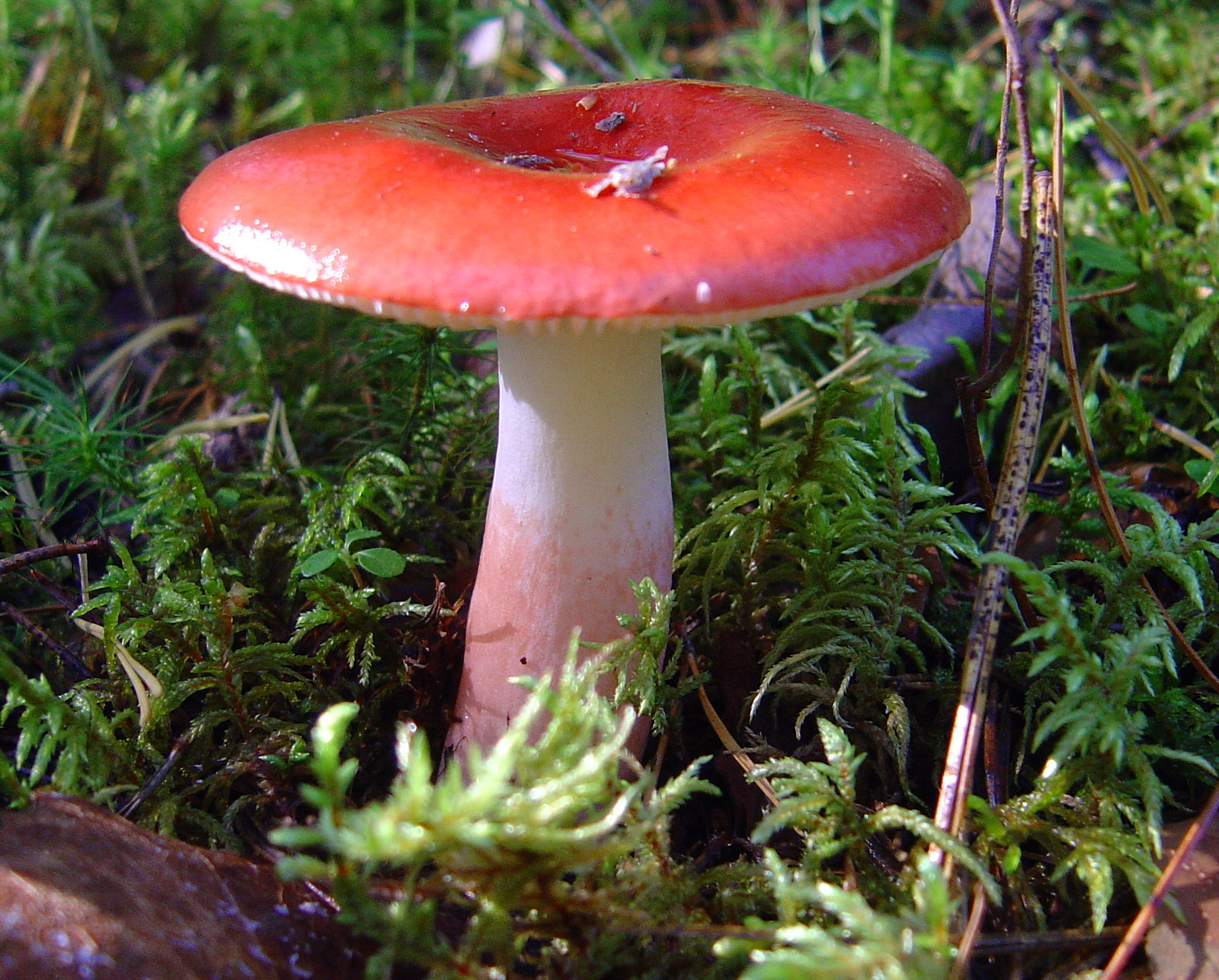 Russula rhodopus Zvára Image location: Basin of Negus’yah River, Yuganskij Reserve, Khanty-Mansi Autonomous Okrug—Yugra, Russia Cap 6-7,5 cm; stem 8 × 2 cm; gills yellowish-white, h=5-7 mm; flesh bitter, slightly acrid in gills; smell faint (meal ?); sp-print ochraceous (IId) in mixed forest coll. number BAS-07082501 Used references For more information about this, see the observation page at Mushroom Observer.